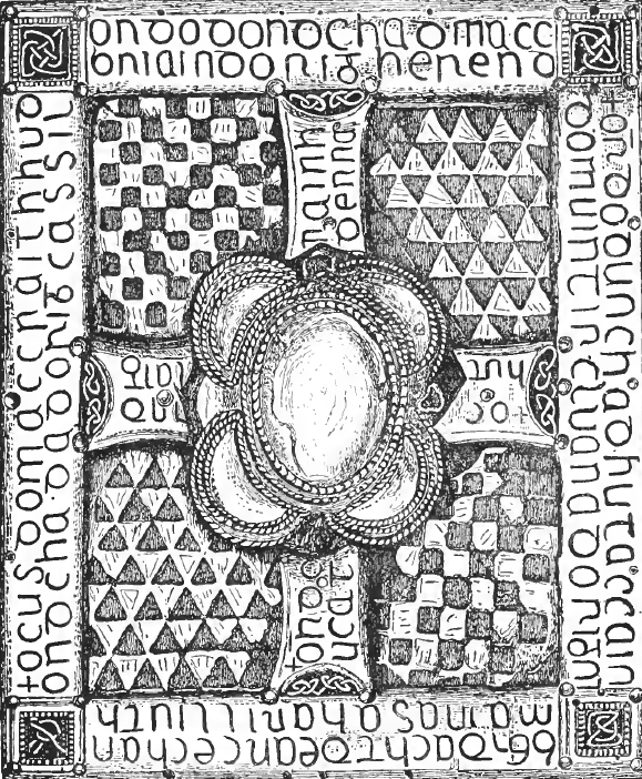 The cumdach (book cover) of the Stowe Missal (rotated 180% from normal).